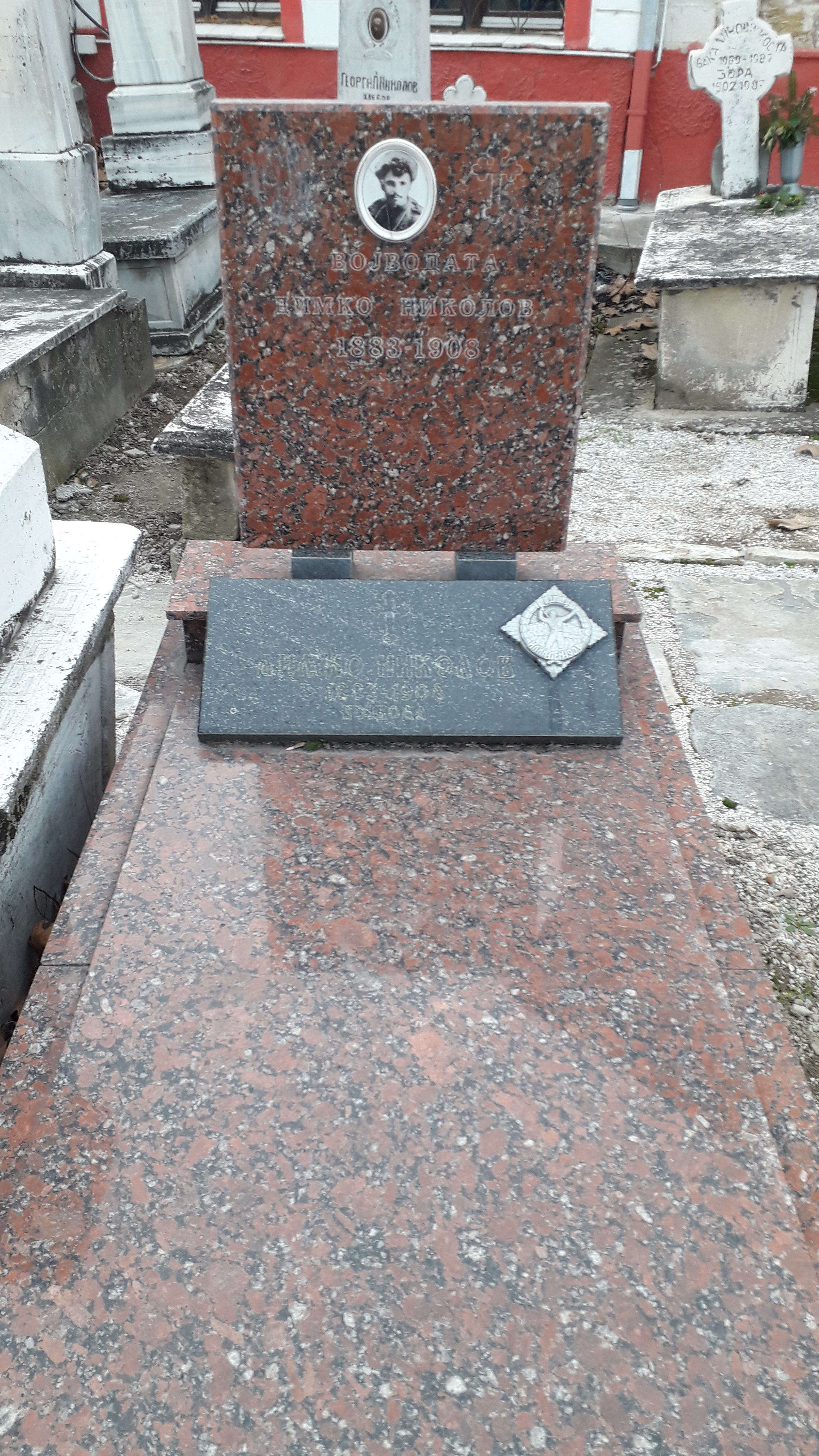 Dimko Nikolov grave, Bitola